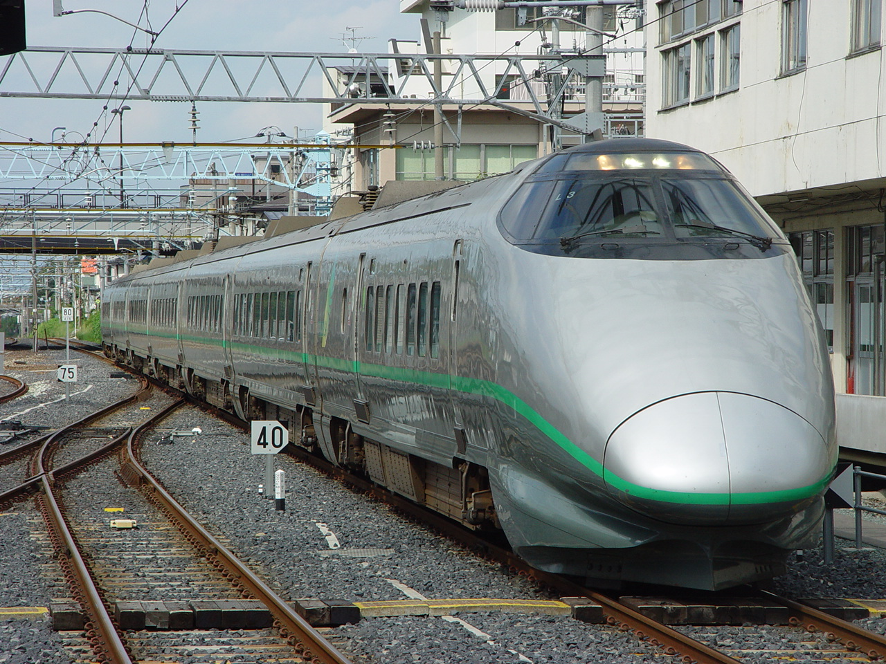 JR East 400 series shinkansen set L3 arriving at Yamagata Station on a Tsubasa service